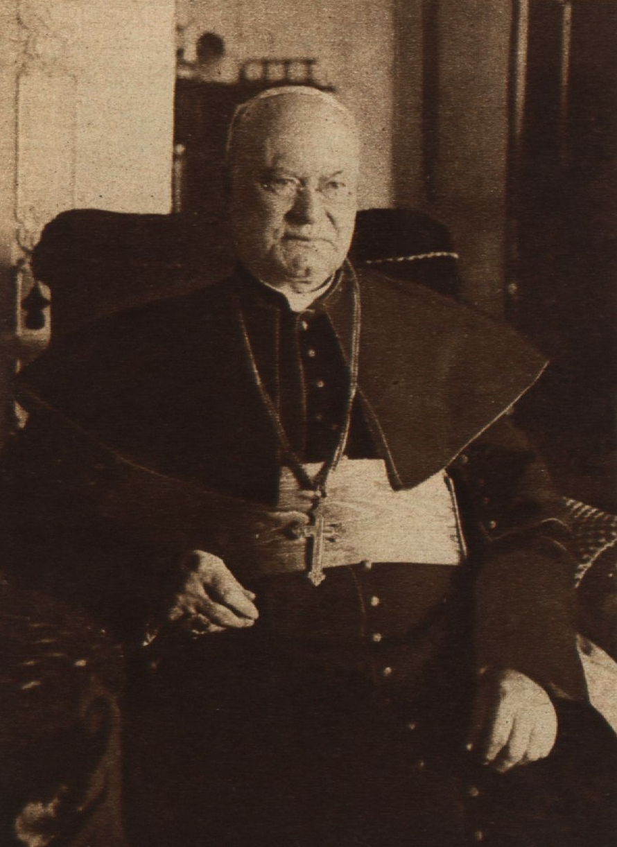 Johannes Baptist Rößler (1850–1927), Roman Catholic bishop of the diocese of St. Pölten from 1894 to 1927.